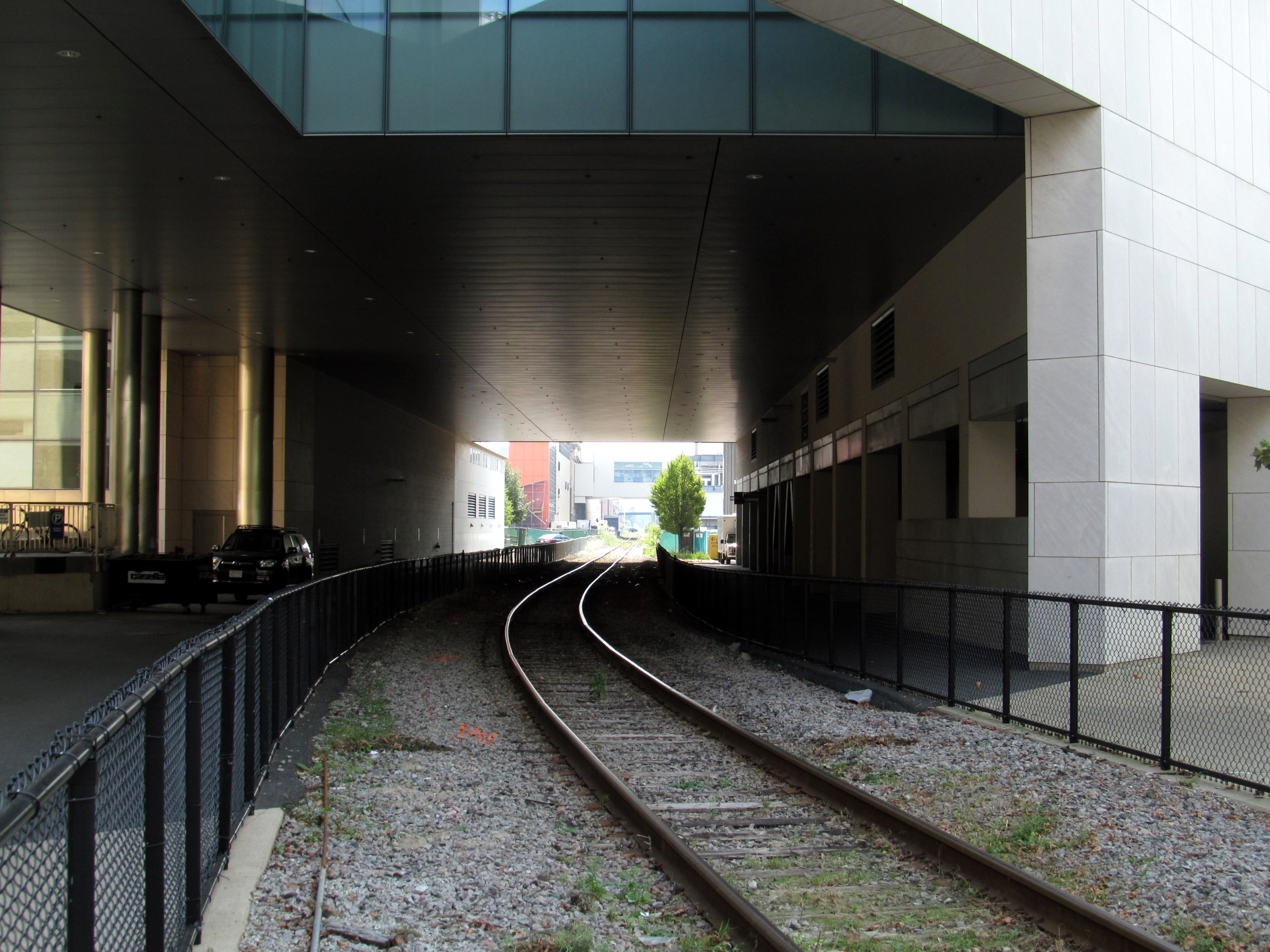 Potential location of a commuter rail station at Kendall Square, proposed under the Grand Junction study of 2012 and MassDOT DMU plans from 2014.